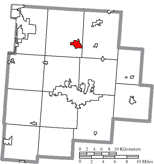 Map of the municipal and township boundaries of Fairfield County, Ohio, United States, as of the 2000 census, with the location of the village of Baltimore highlighted. Township borders are shown only in unincorporated areas in order to differentiate incorporated and unincorporated areas more clearly.